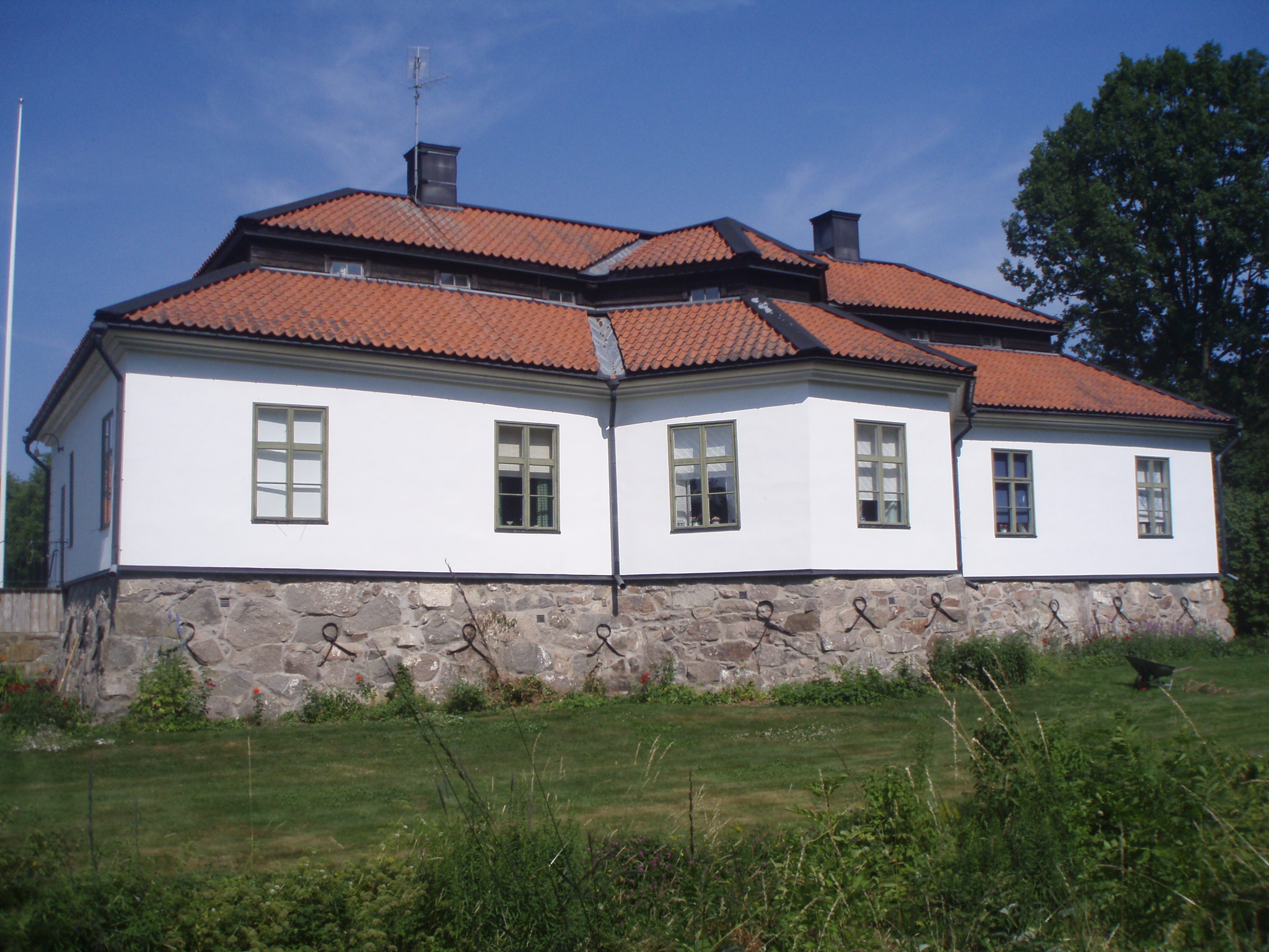 Toverum Mansion